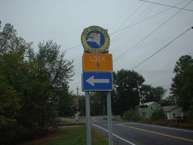 Signage along New York State Route 149 in the community of Smith's Basin, New York for the Champlain Canal's 9th Lock